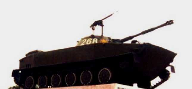 Vietnamese PT-76 monument to the North Vietnamese victory in the Battle of Lang Vei.